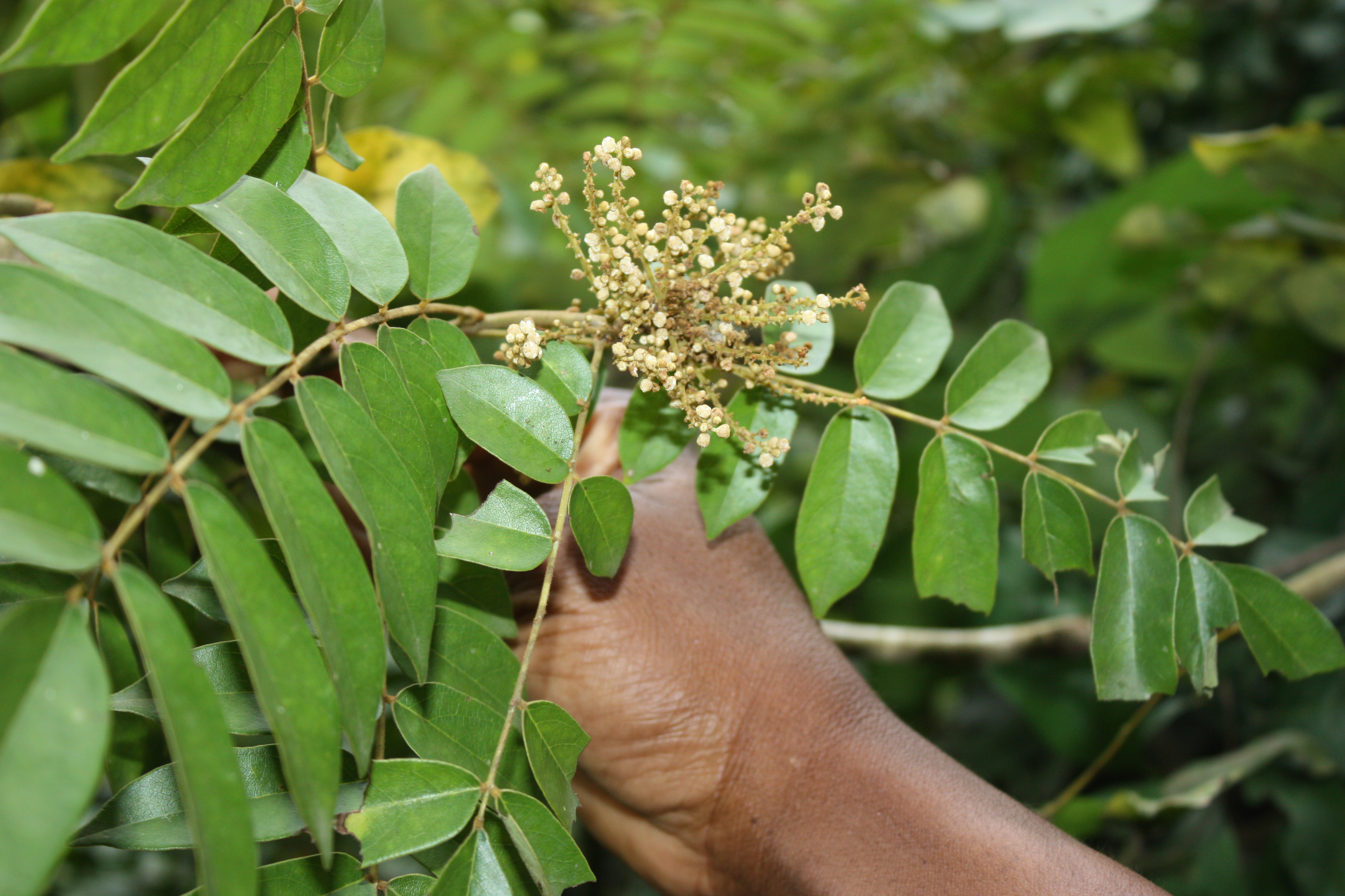 inflorescence of Cnestis ferruginea, F.Cl. de Pahou, Benin